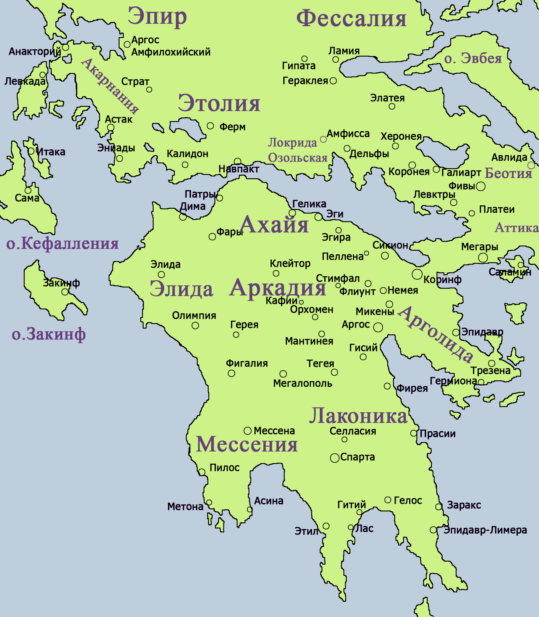 Peloponnes and Middle Greece